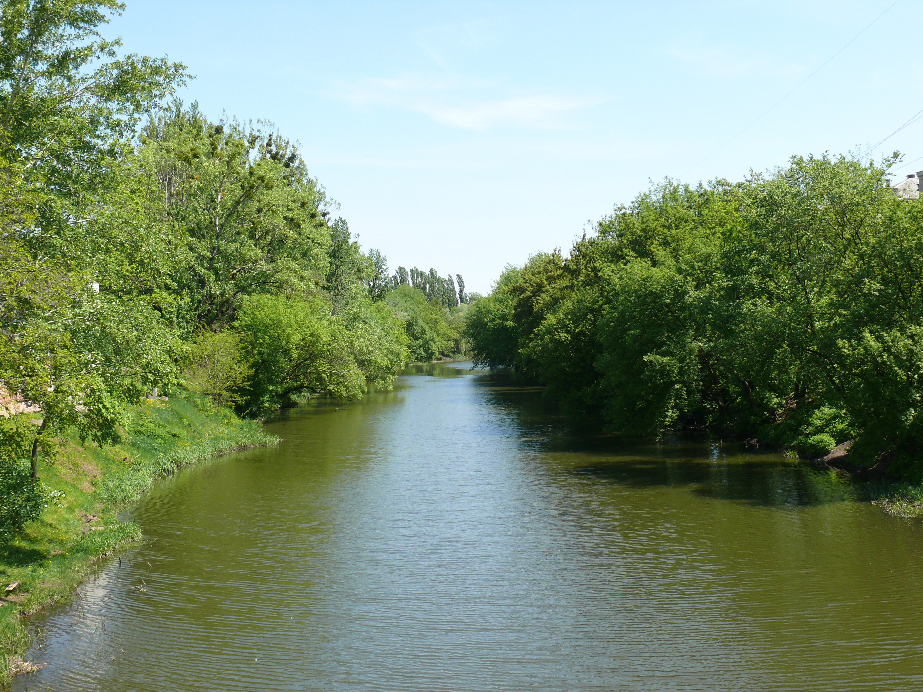 Kharkov river from Chigirin bridge.